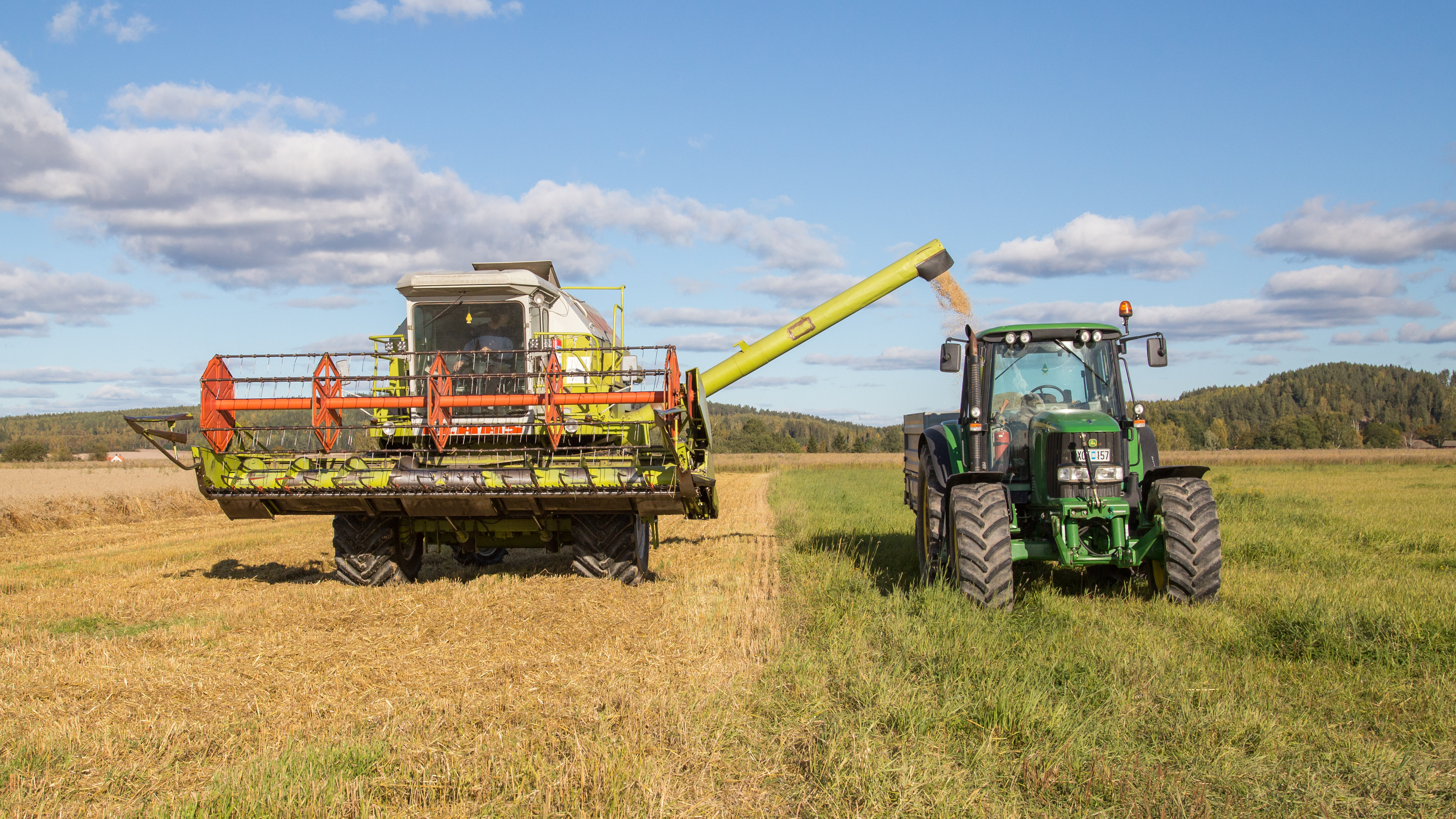 Combine harvester Claas Dominator 96 unloading grain in a cart behind a John Deere 6620 tractor in Västerby, Hedemora Municipality, Dalarna County, Sweden.